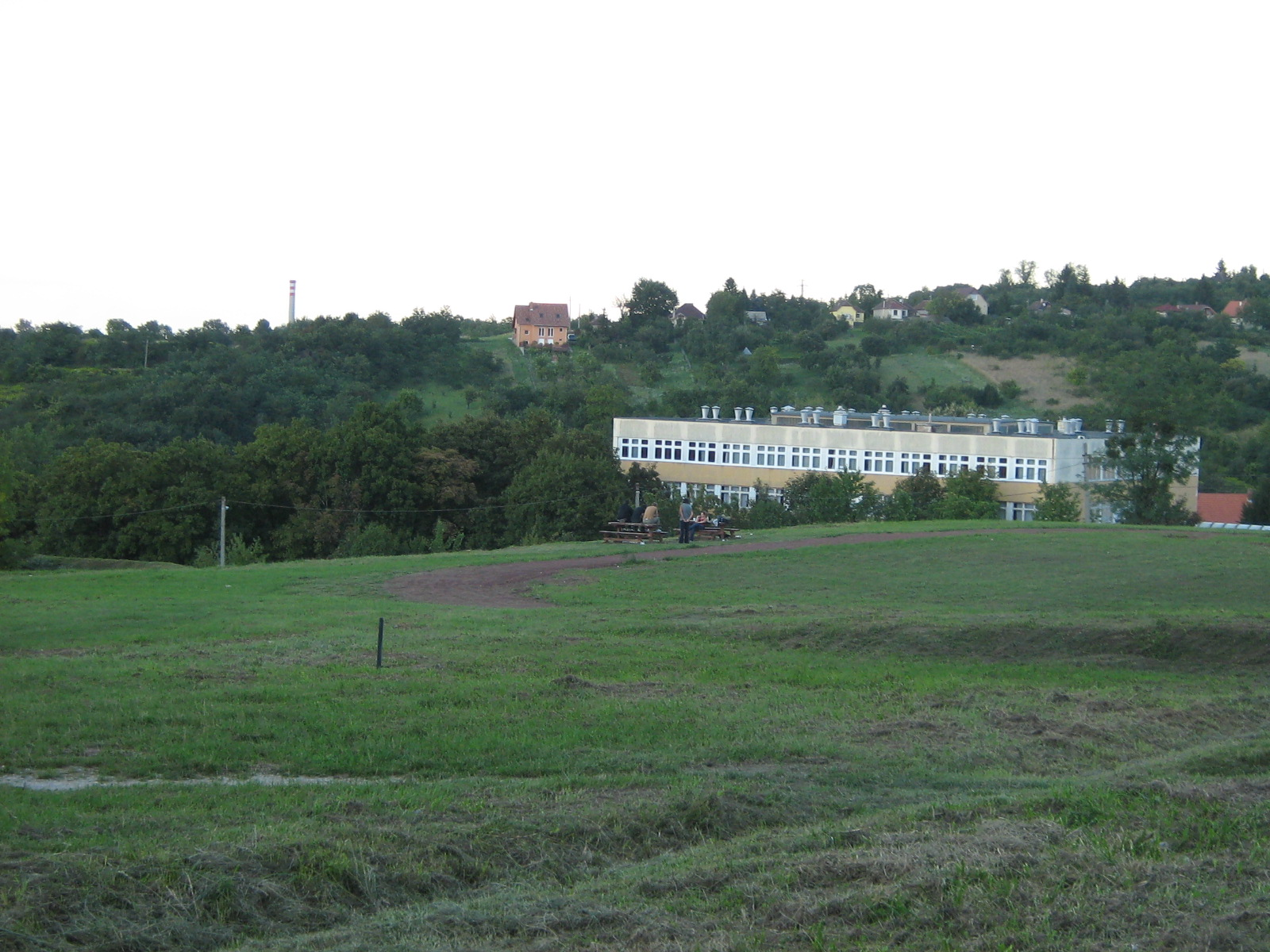 Elementary school in Komlóstető